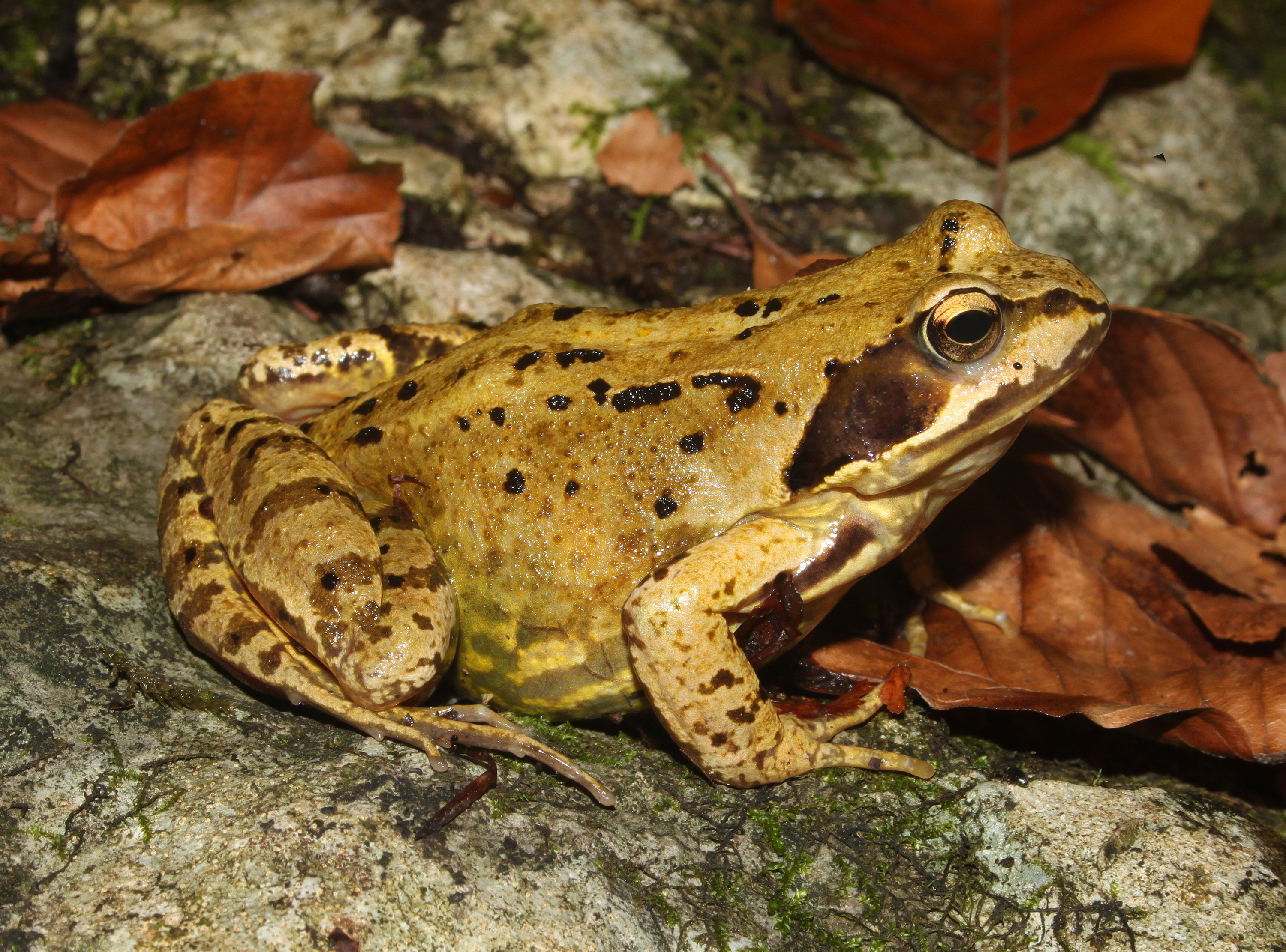 European Common Frog or European Common Brown Frog, Rana temporaria, Family: Ranidae, Location: Germany, Lauterach, Wolfstal